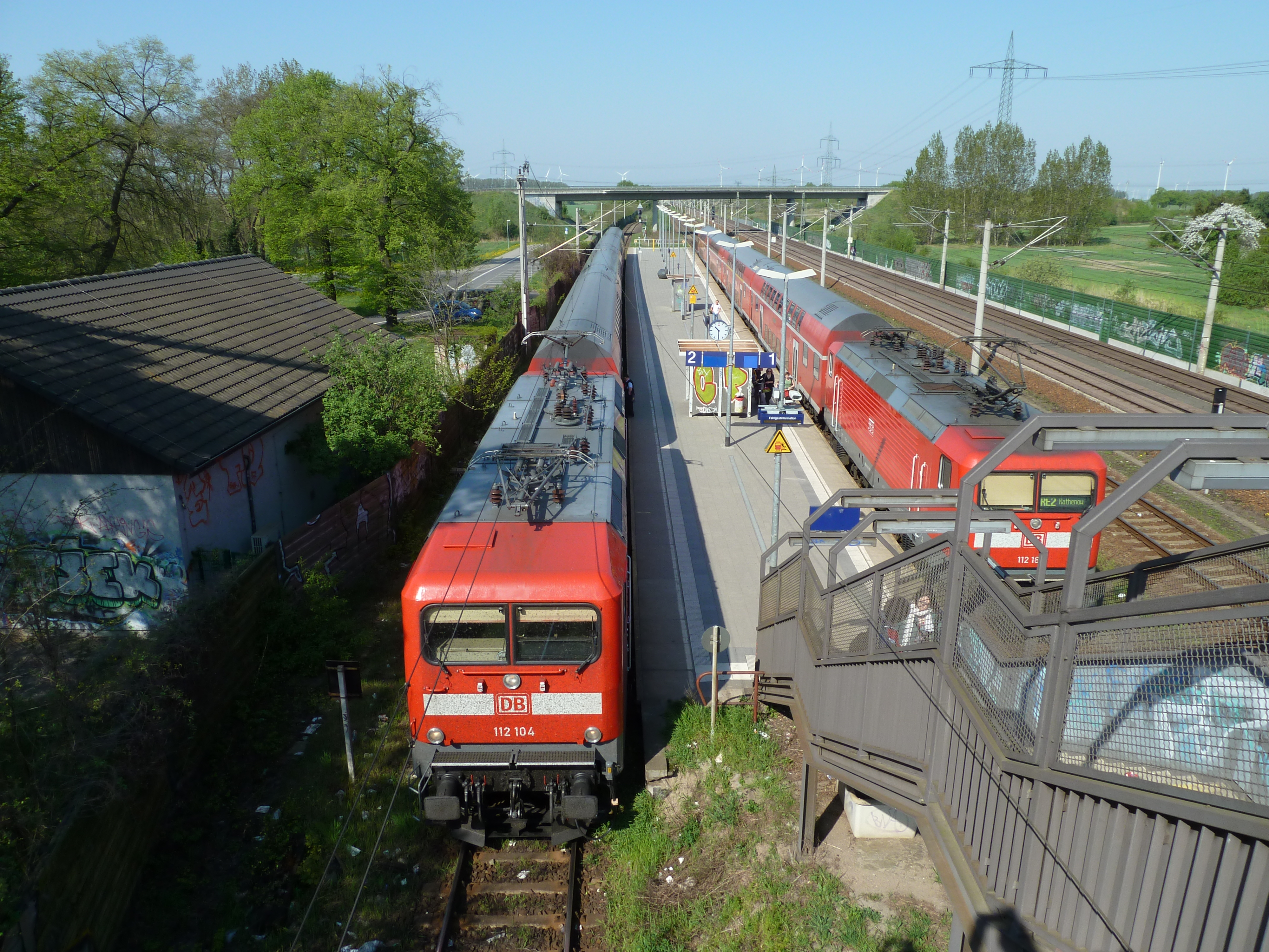 Wustermark station, two crossing RE2-trains